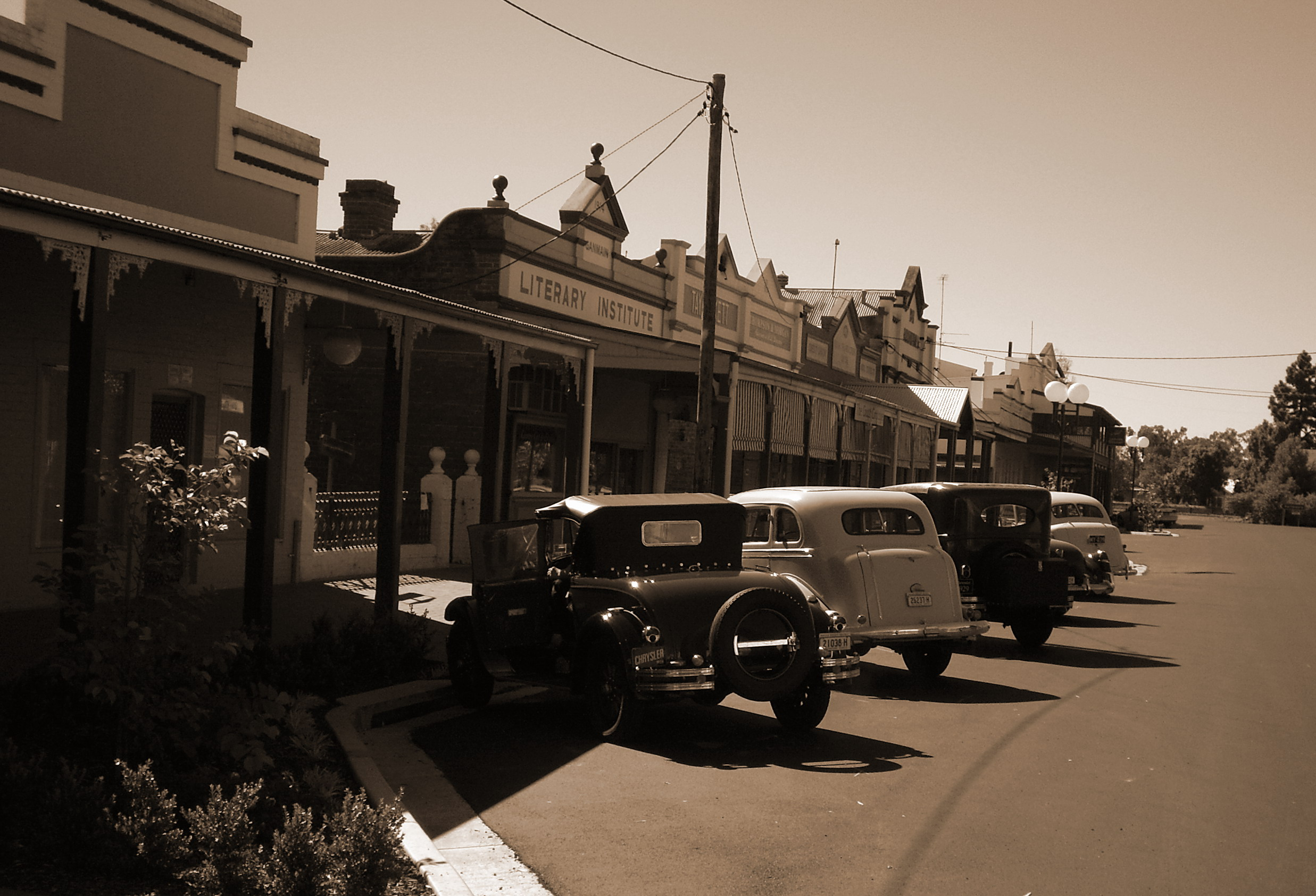 Ganmain Streetscape - with vintage cars - photograph made sepia to set tone